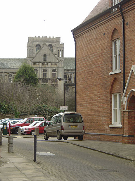 The end of Peterscourt